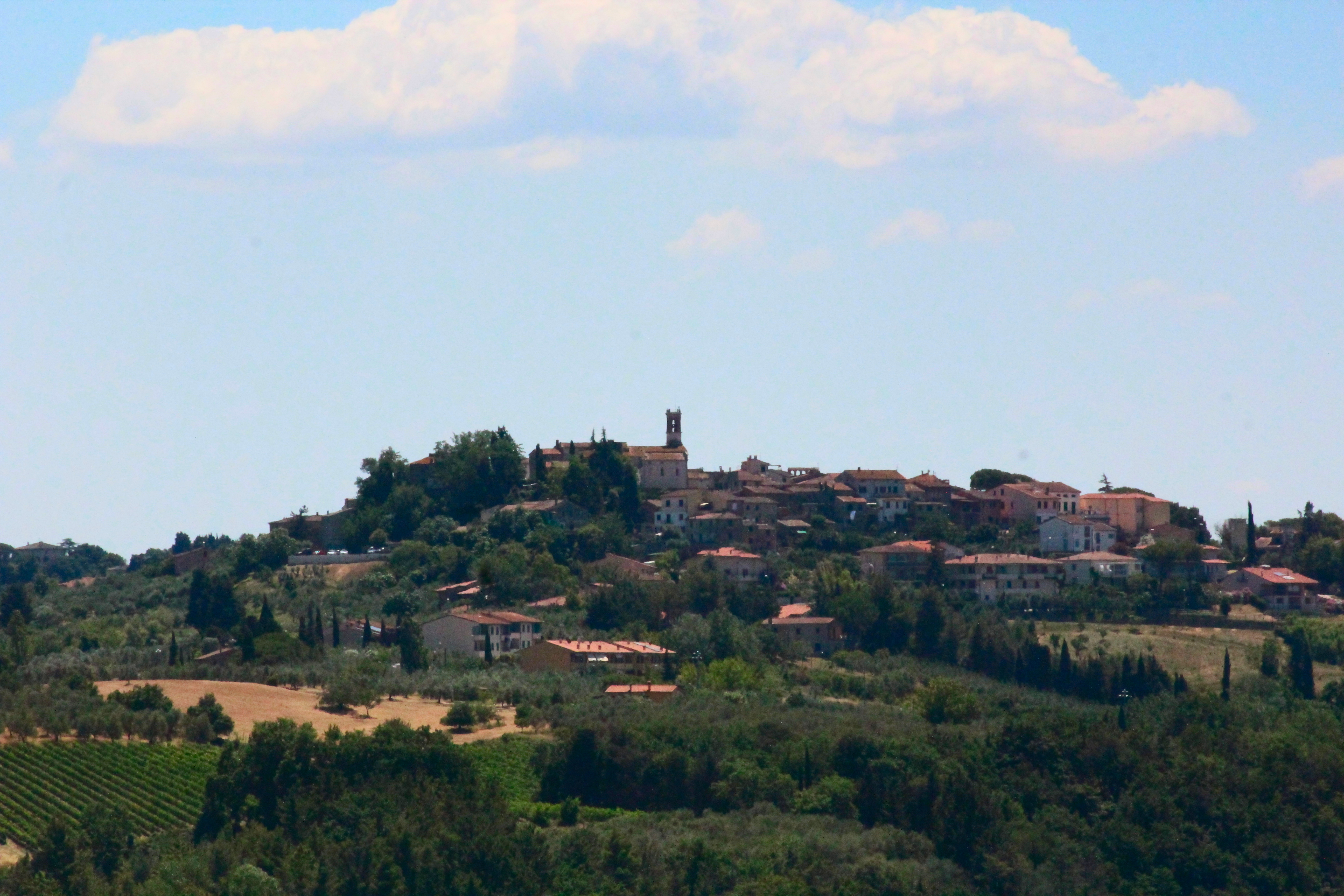 Morrona, hamlet of Terricciola, Province of Pisa, Tuscany, Italy